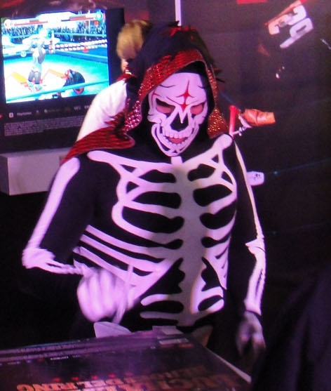 La Parka signing autographs at the AAA/Slang booth at E3